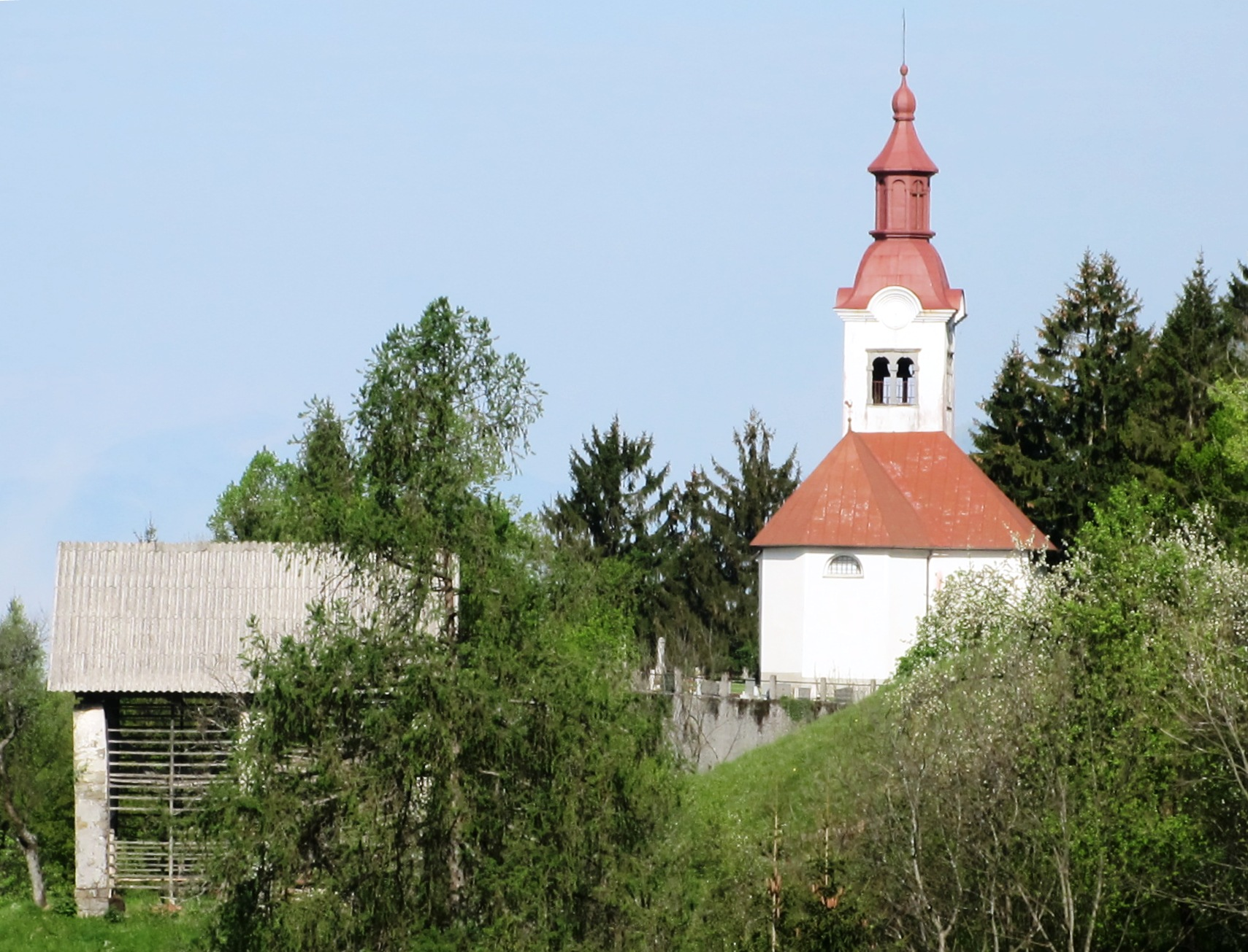 The parish church of Saint Leonard in Bukovo in the Municipality of Cerkno, Slovenia